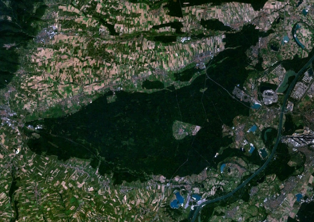 NASA World Wind image.